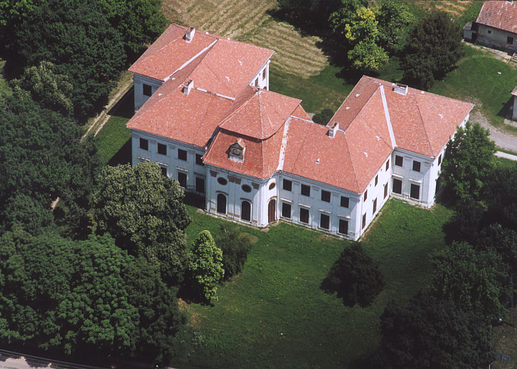 Palace - Nagyberki - Hungary - Europe (Schmiddeg–Vigyázó Mansion)